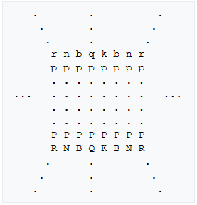 Infinite chess represented by ASCII character symbols.